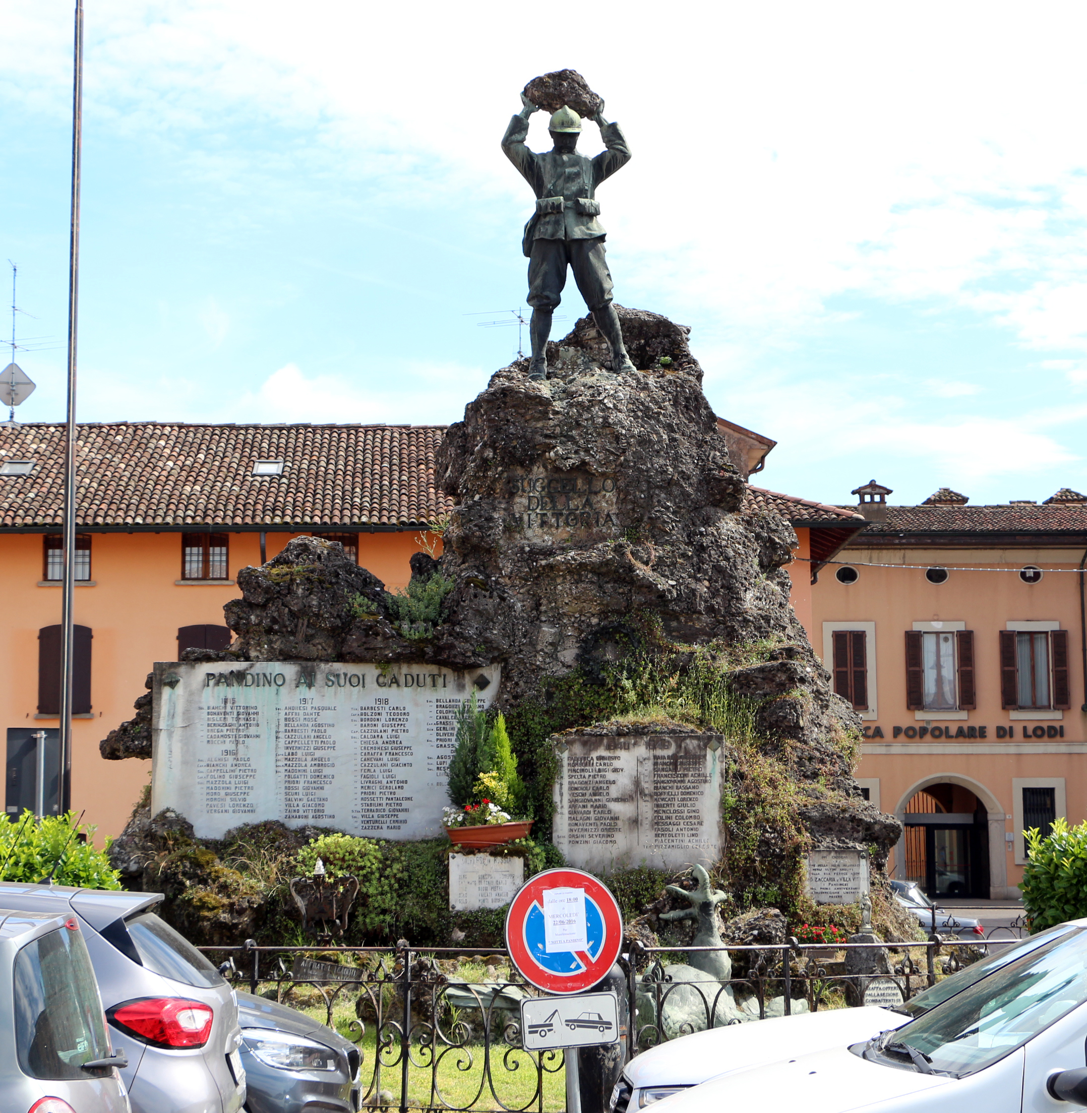 Monument to the fallen of the first and second world war by Pietro Küfferle (1871–1942) in Pandino, Italy. ICCD Code 03 03253974 — General Catalog of Cultural Heritage